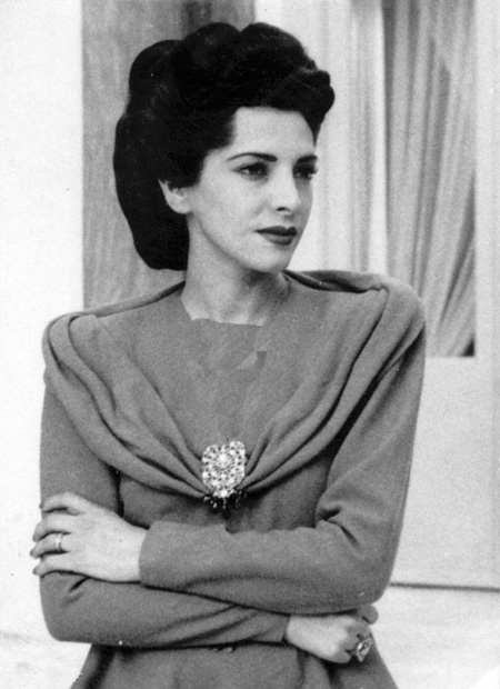 Shams Pahlavi